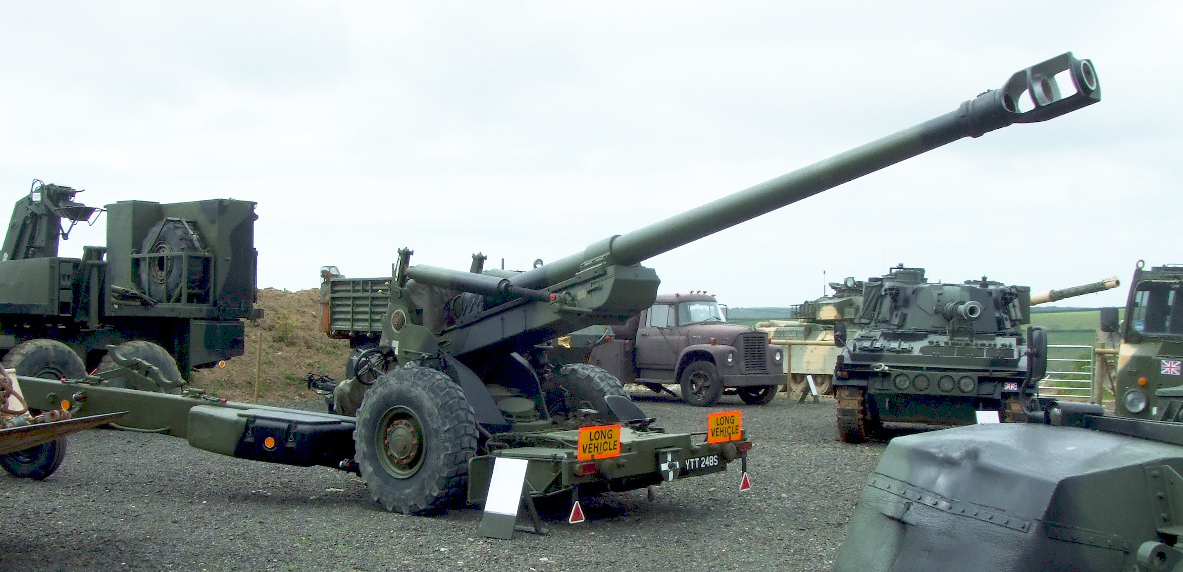 Vickers/Rheinmetall FH 70 155mm howitzer of 1975 at the North Cornwall Tank Collection, Dinscott, 05/07.